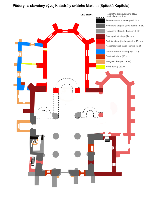 Ground plan and building development of St. Martin's Cathedral in Spišská Kapitula (current status). Architectural and Historical Research M. Jankovská and the team.